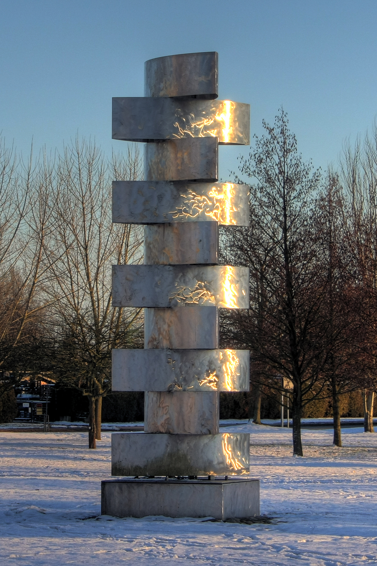 Stainless steel sculpture Begynnelse (Beginning) in Eslöv, Sweden, by Alexius Huber